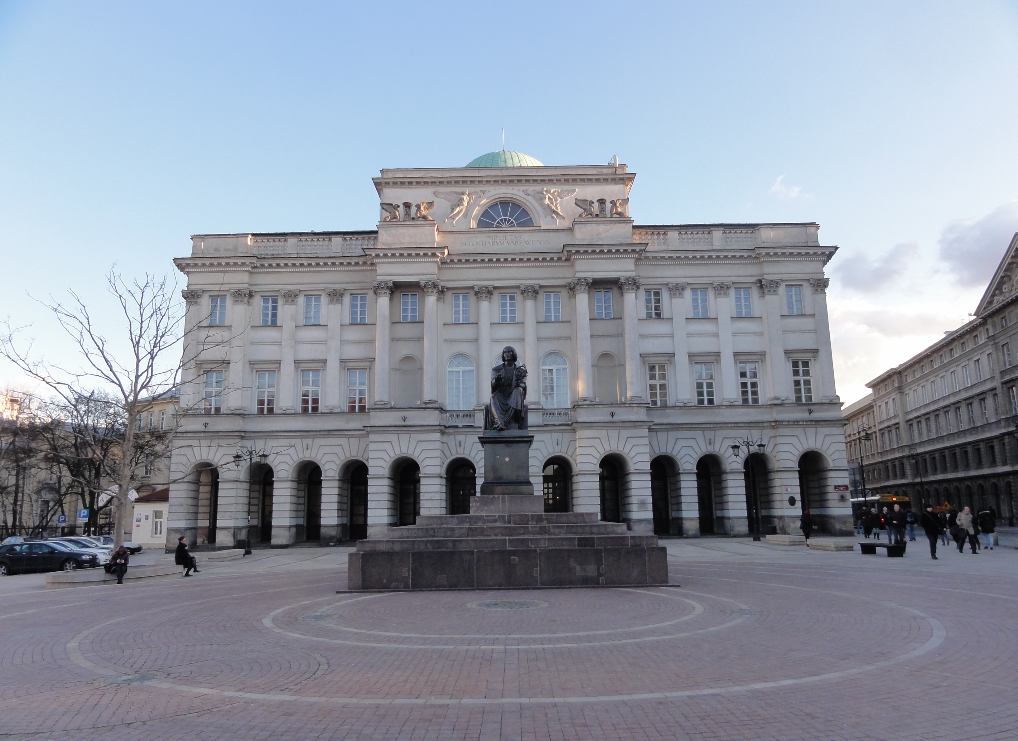 Monument of Copernicus and the Staszic Palace in Warsaw, Poland